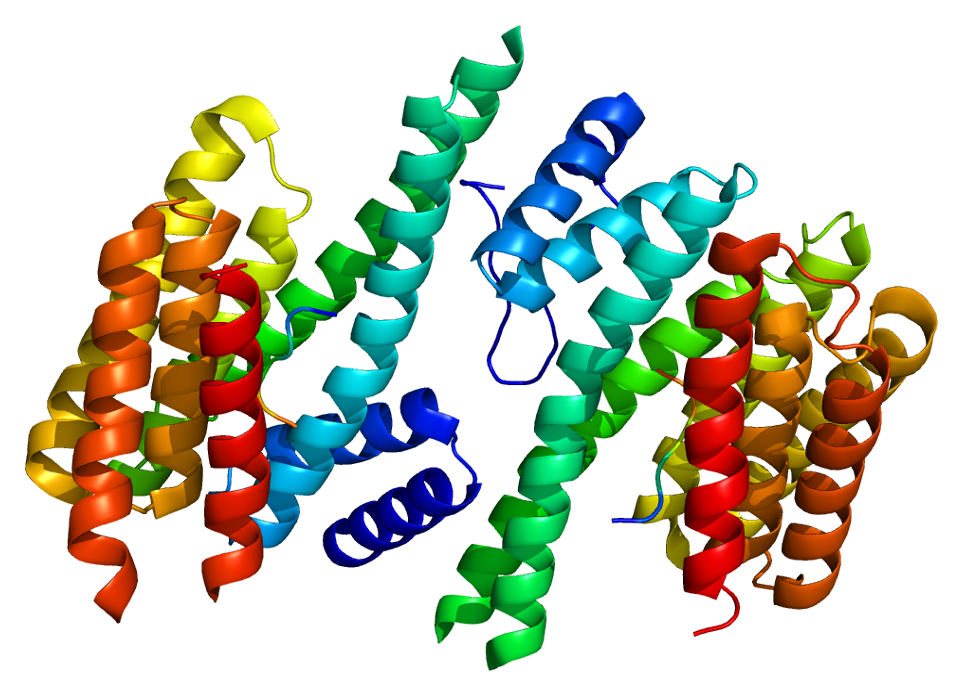 Structure of the YWHAQ protein. Based on PyMOL rendering of PDB 2btp.